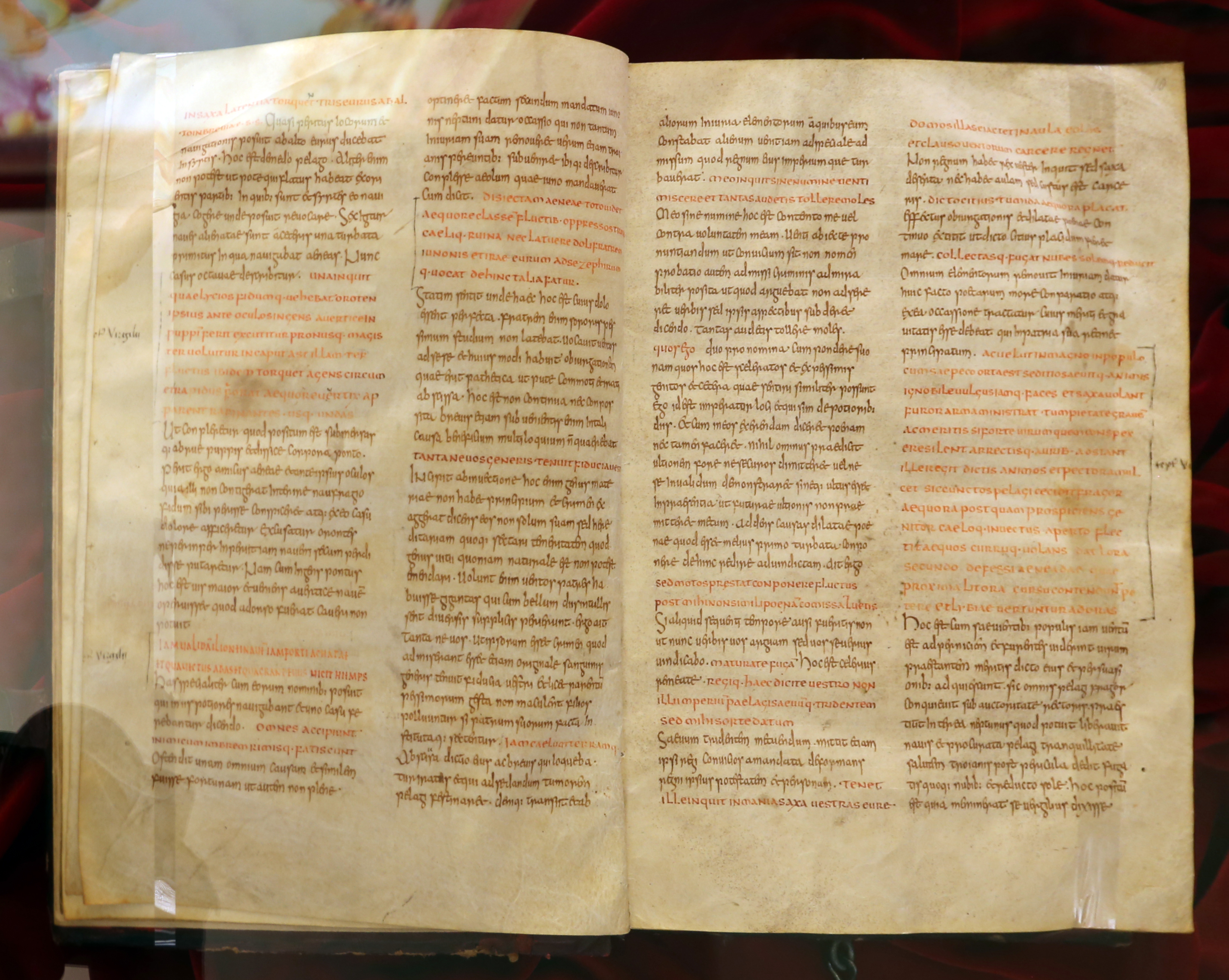 Biblioteca Medicea Laurenziana manuscripts